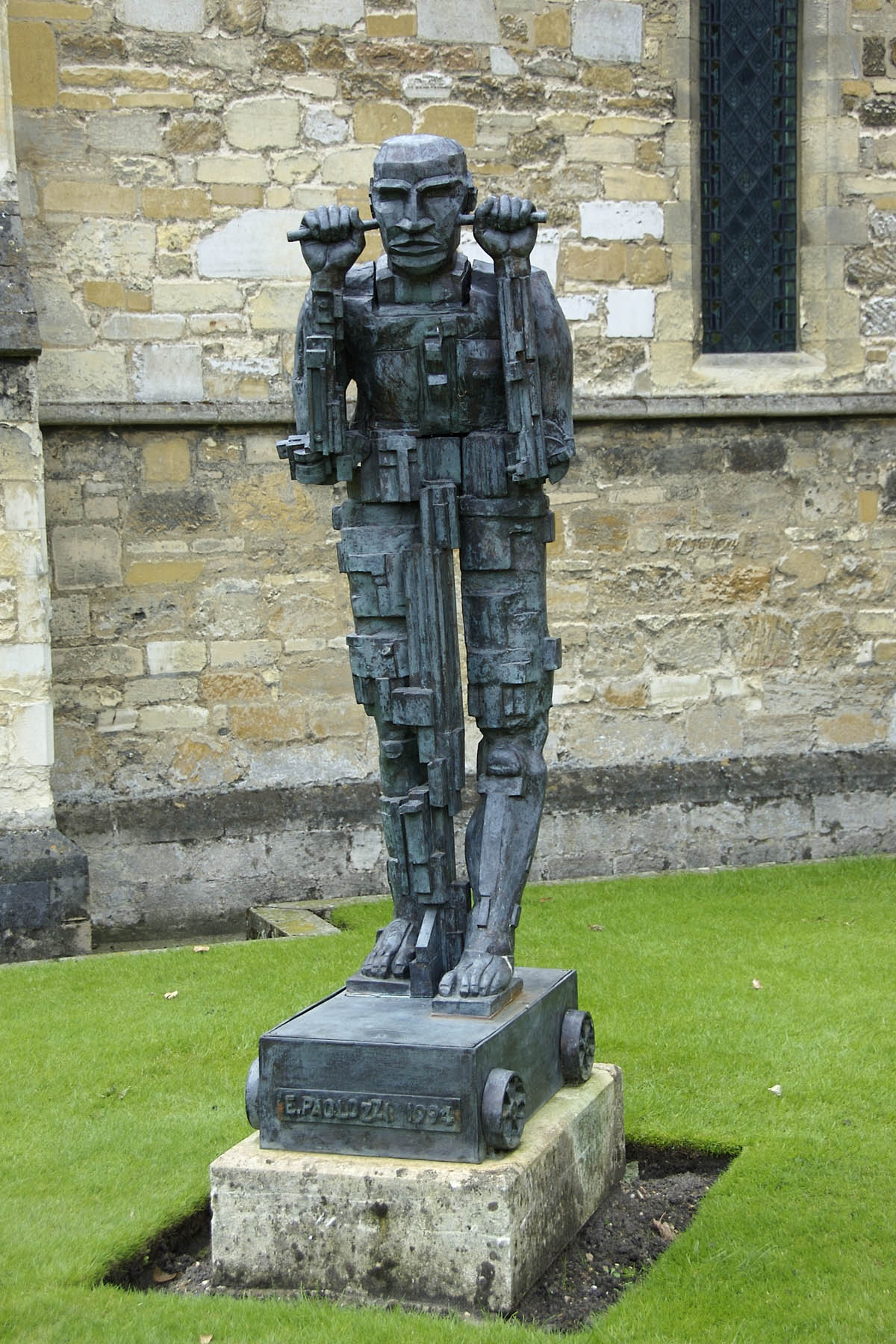 Jesus College Cambridge with Daedalus on Wheels by Eduardo Paolozzi Cambridge/UK Bronze, Chapel Court